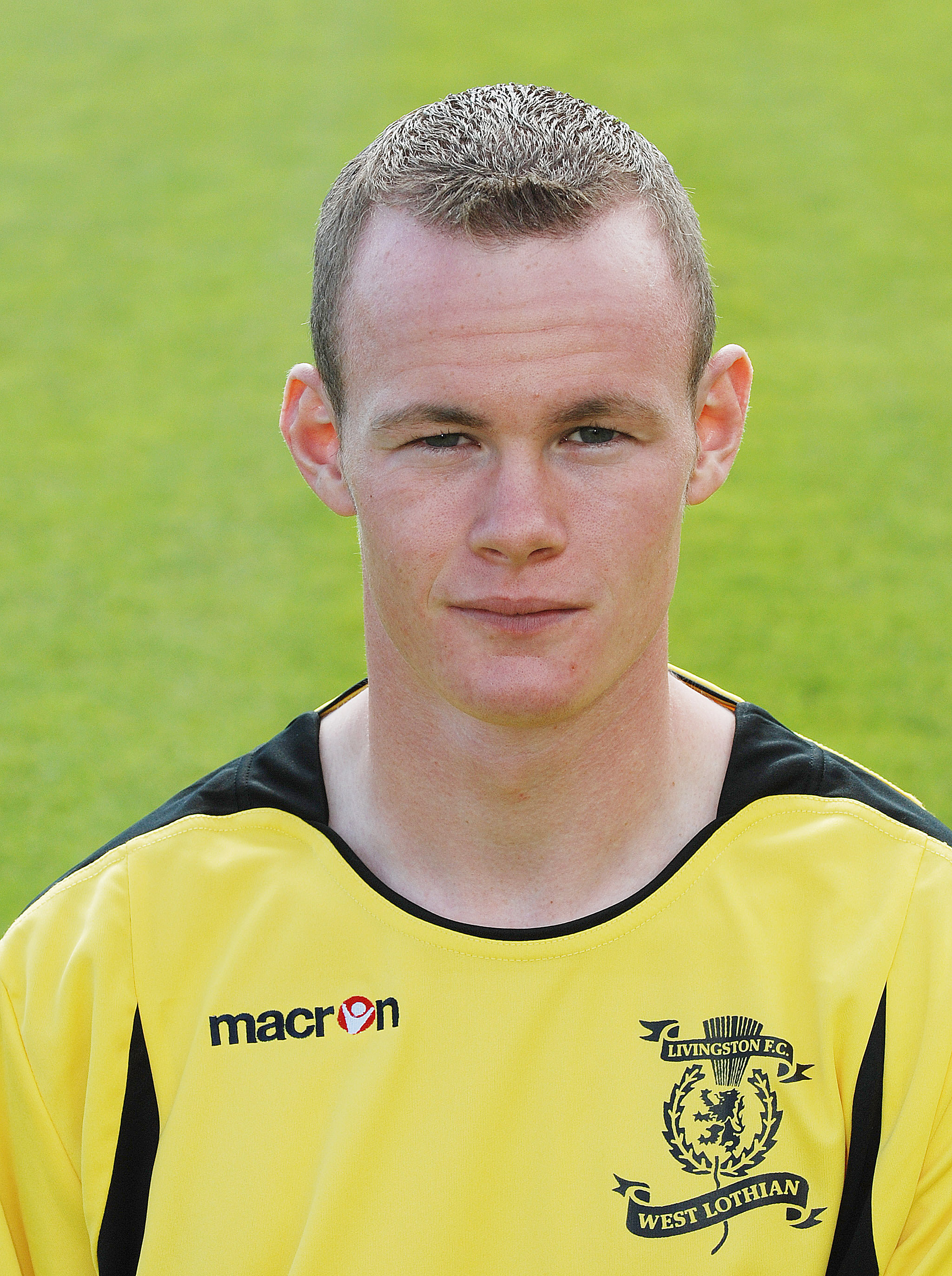 Cameron MacDonald professional footballer LivingstonFC headshot